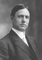 former congressman Walter M. Chandler of New York.